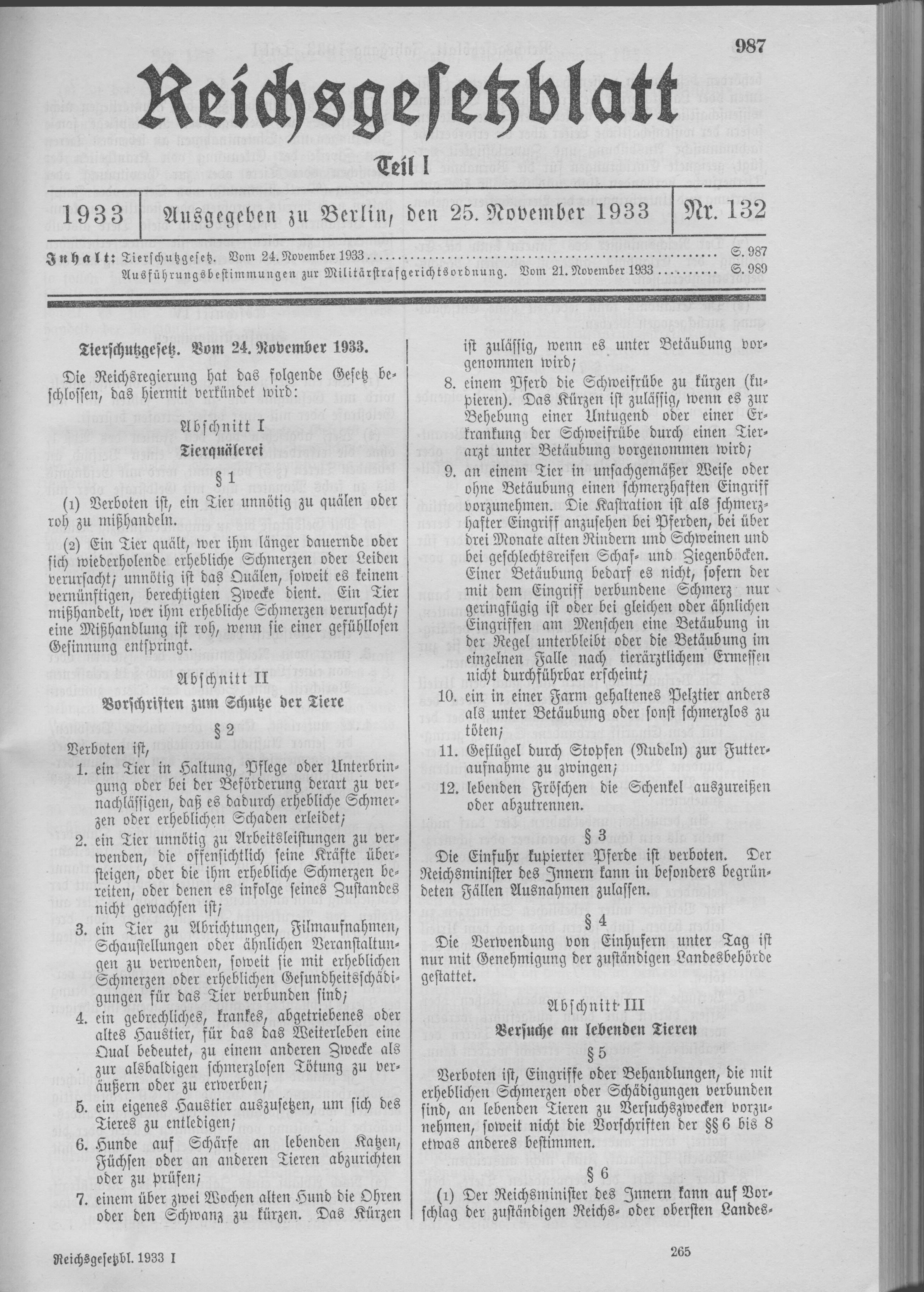 Scan from the Imperial Law Gazette of Germany, 1933, part 1